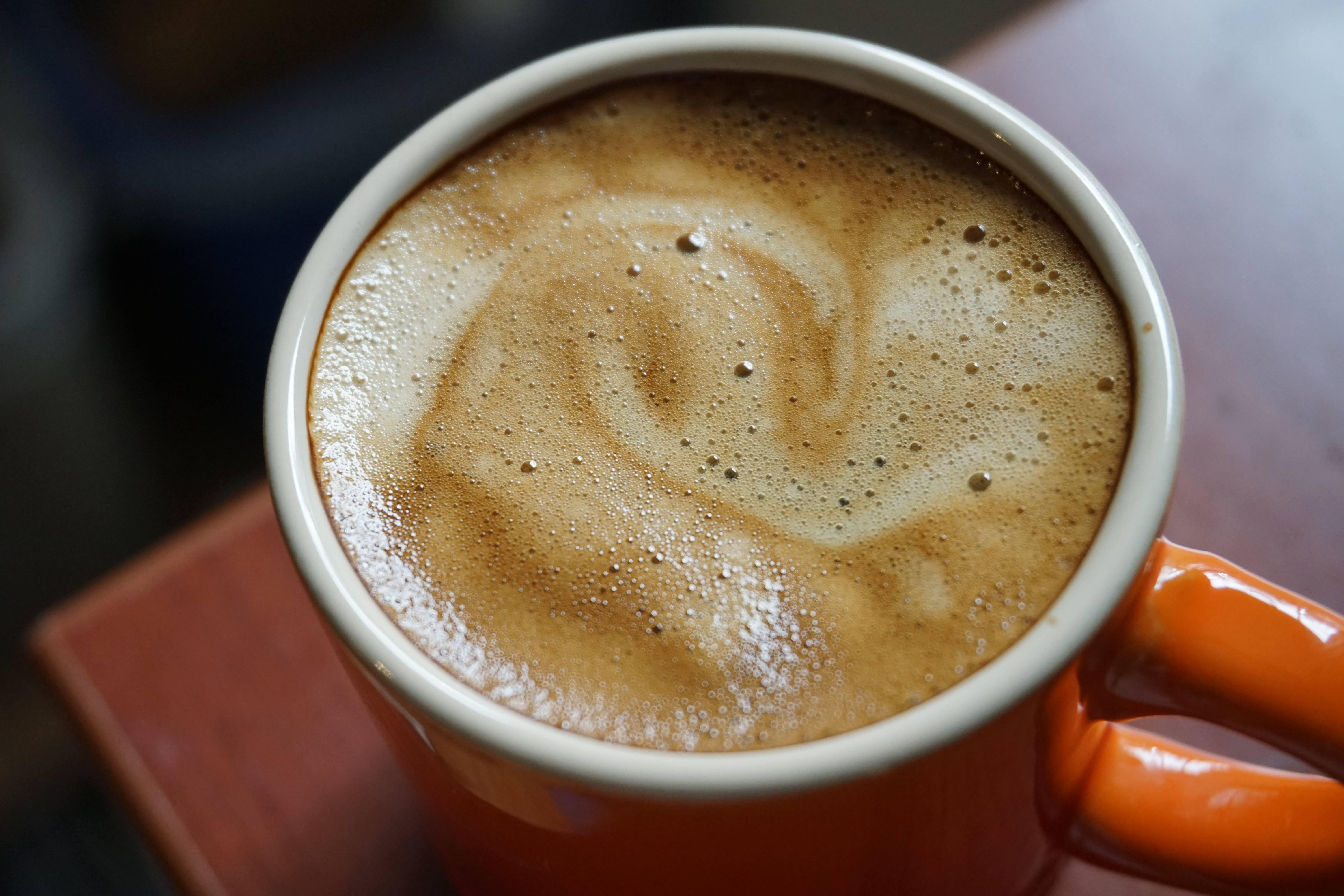 Crema floating atop a cup of espresso. Swirls and color variation are clearly visible in the foam.